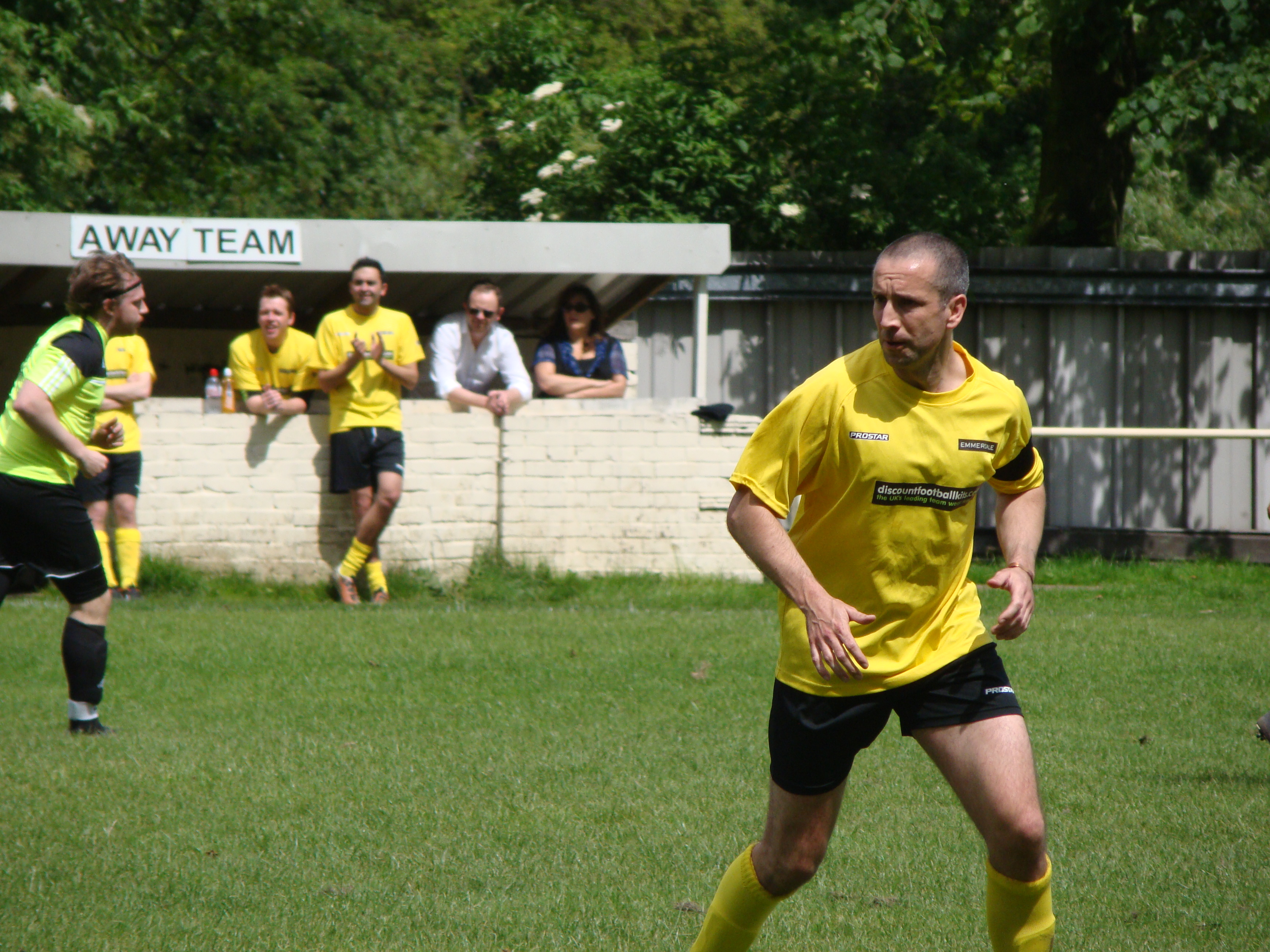 James Hooton